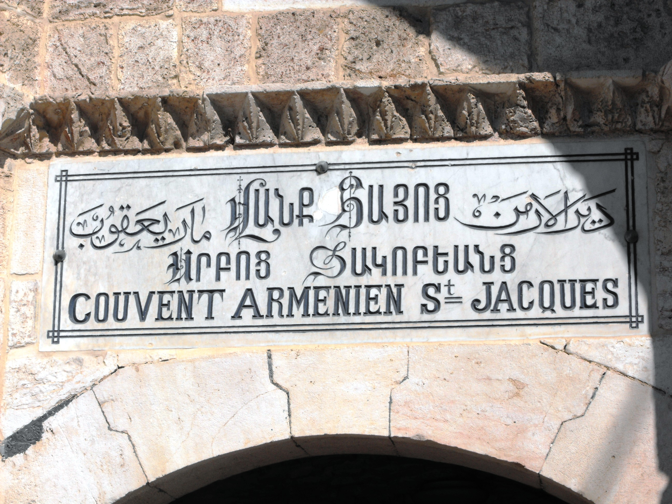 Armenians in the old city of Jerusalem, Religion in Israel